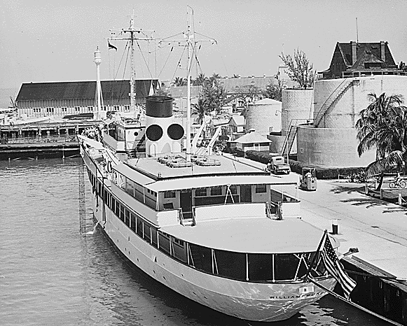 Photograph of President Truman's yacht, the U.S.S. WILLIAMSBURG, docked at the U.S. Naval Base, Key West, Florida, during the President's vacation., 03/1951